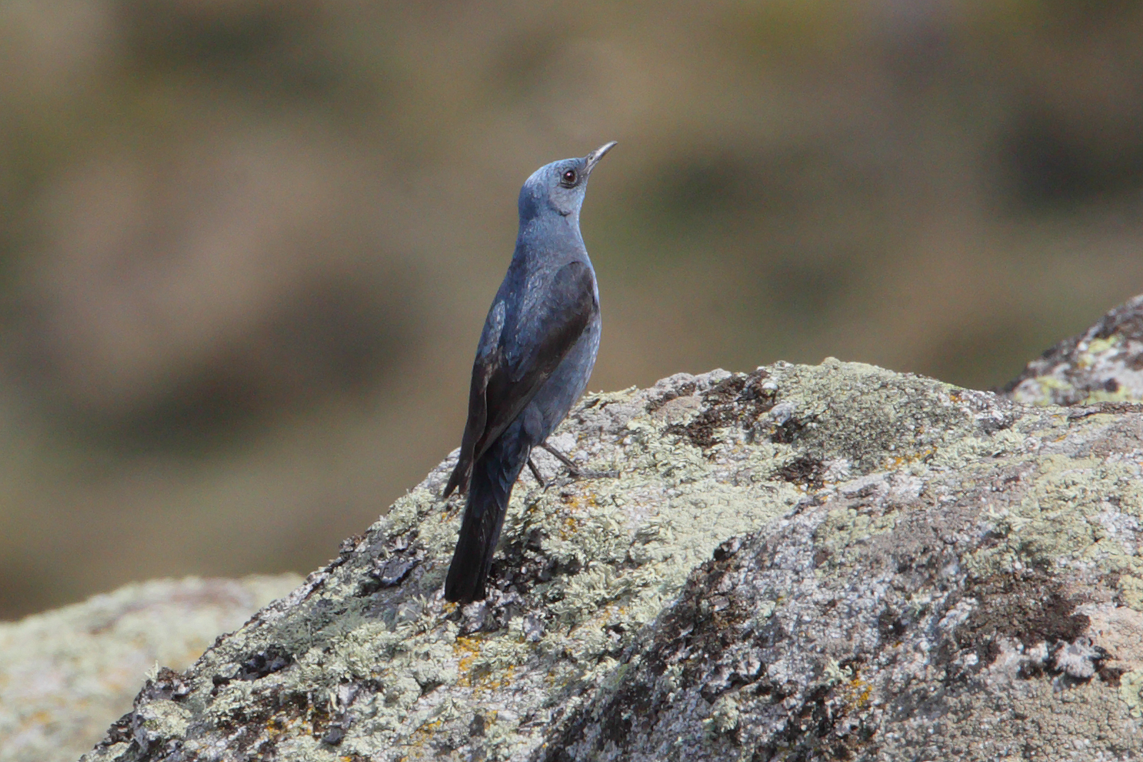 Blue Rock Trush